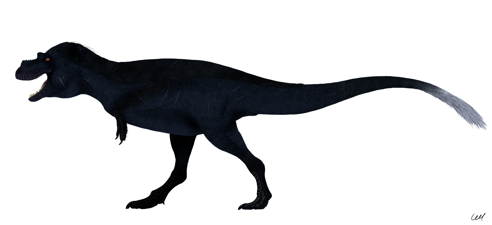 A profile view of Gorgosaurus libratus